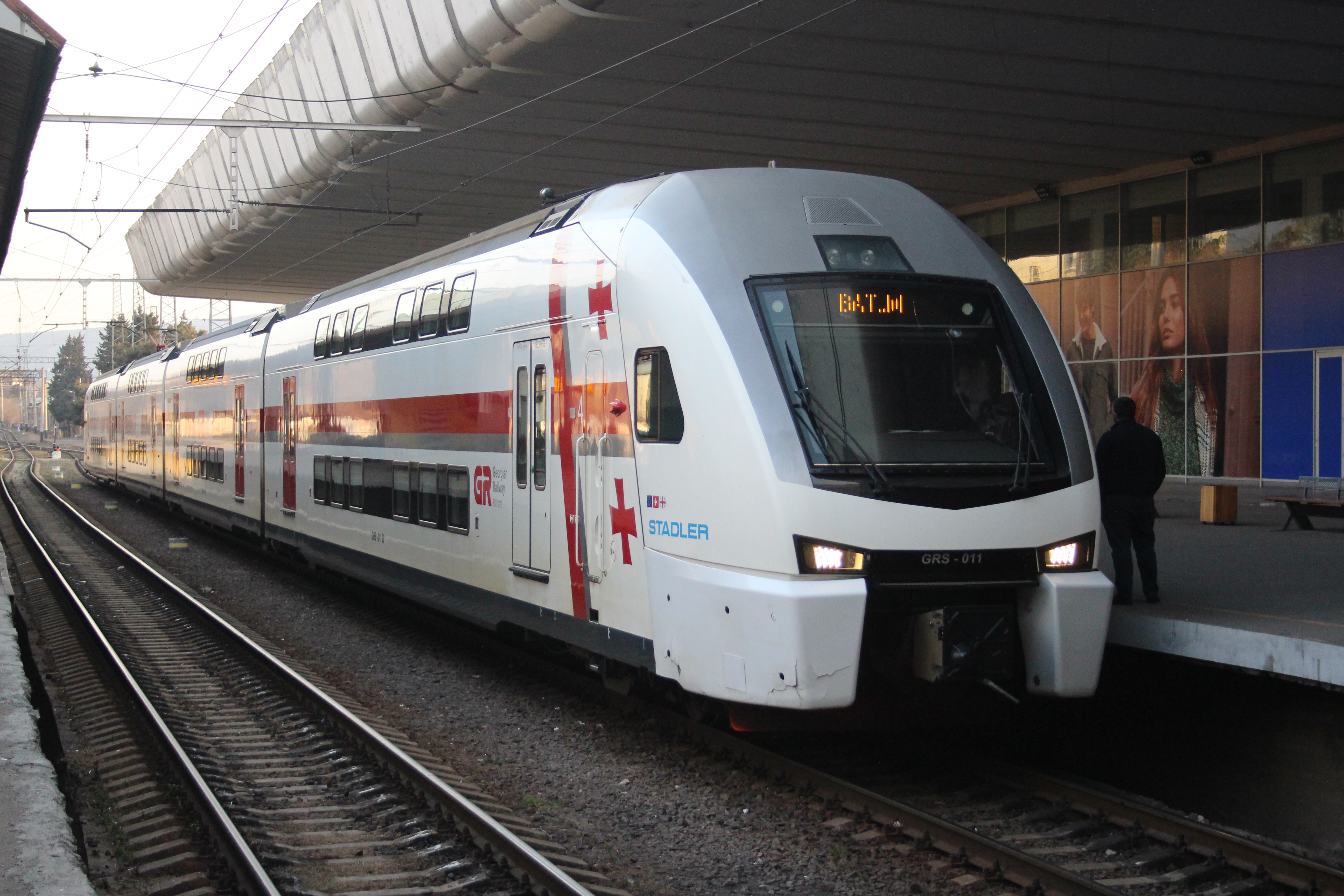 GR GRS - 011 having terminated in from Batumi, sat at Tbilisi main station. This is a Stadler KISS 'Eurasia' EMU, built for Georgian Railway.